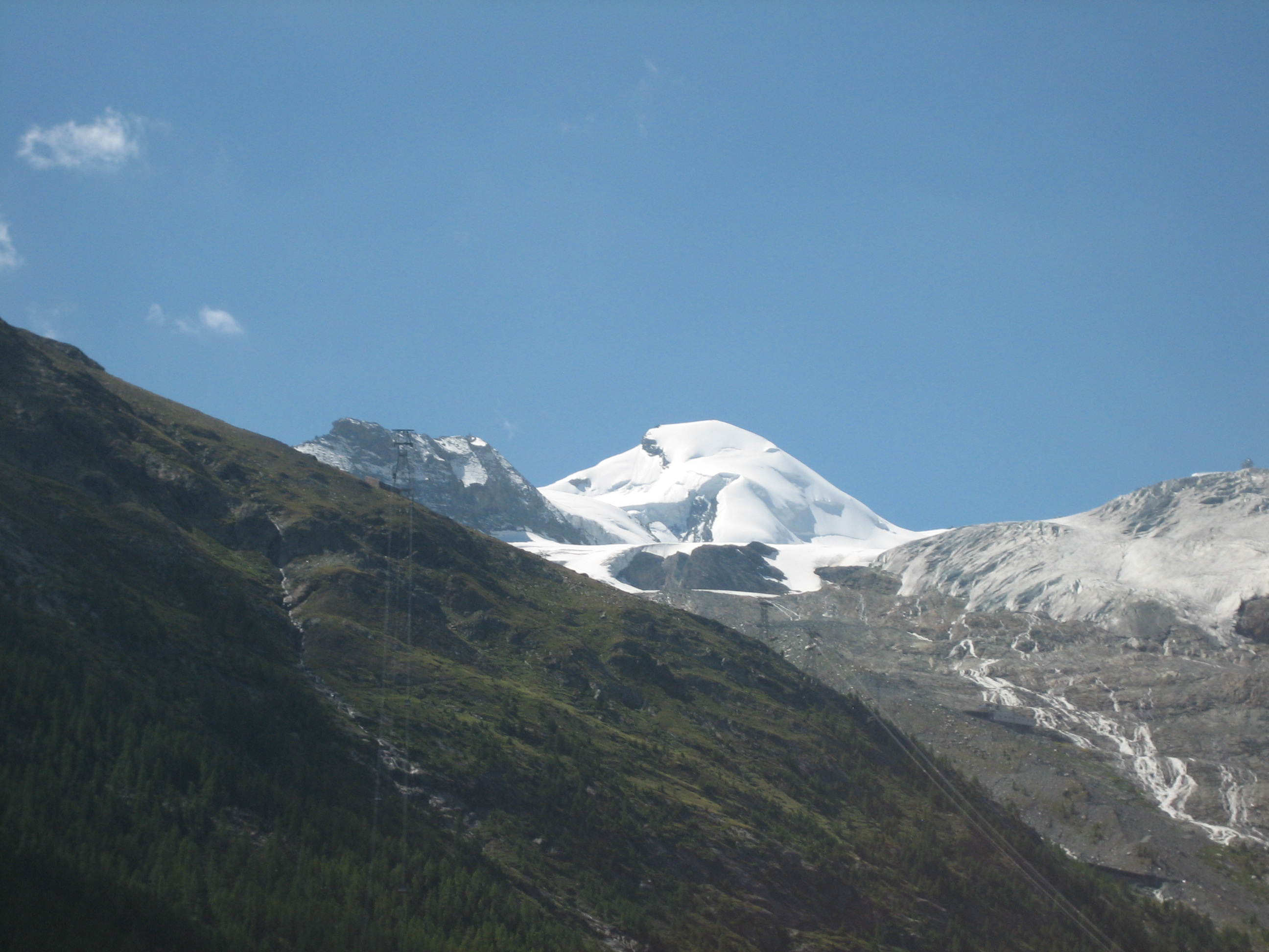 Allalinhorn from Saas Fee in Switzerland